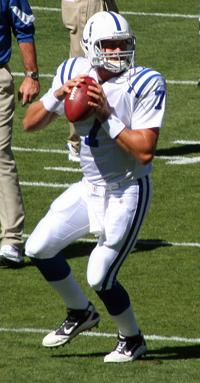 Curtis Painter, a player on the Indianapolis Colts American football team.